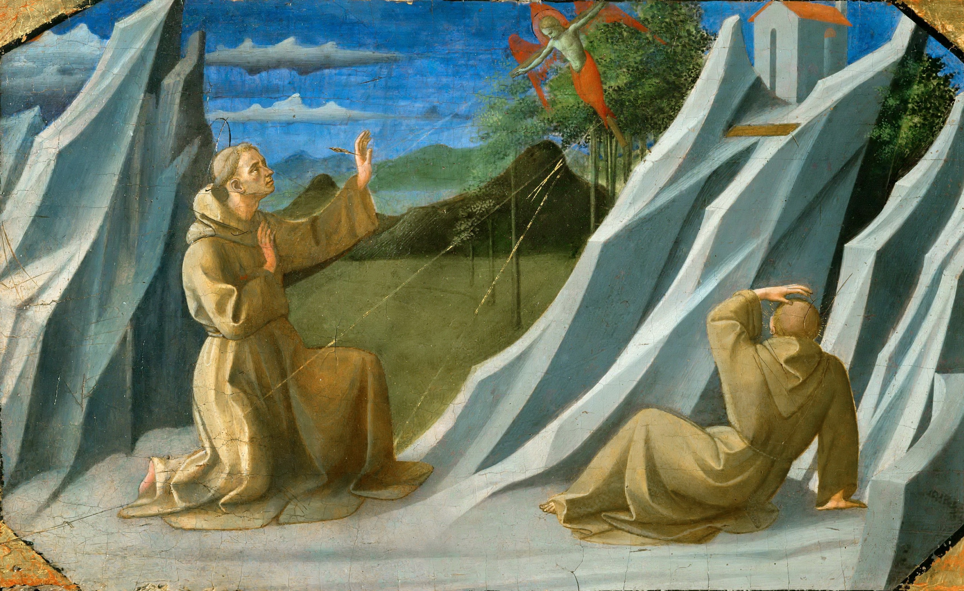 Predella from the altarpiece of the noviciatelabel QS:Lde,"Predella des Altarbildes des Noviziats"label QS:Len,"Predella from the altarpiece of the noviciate"label QS:Lit,"Predella della Pala del Noviziato, Uffizi"